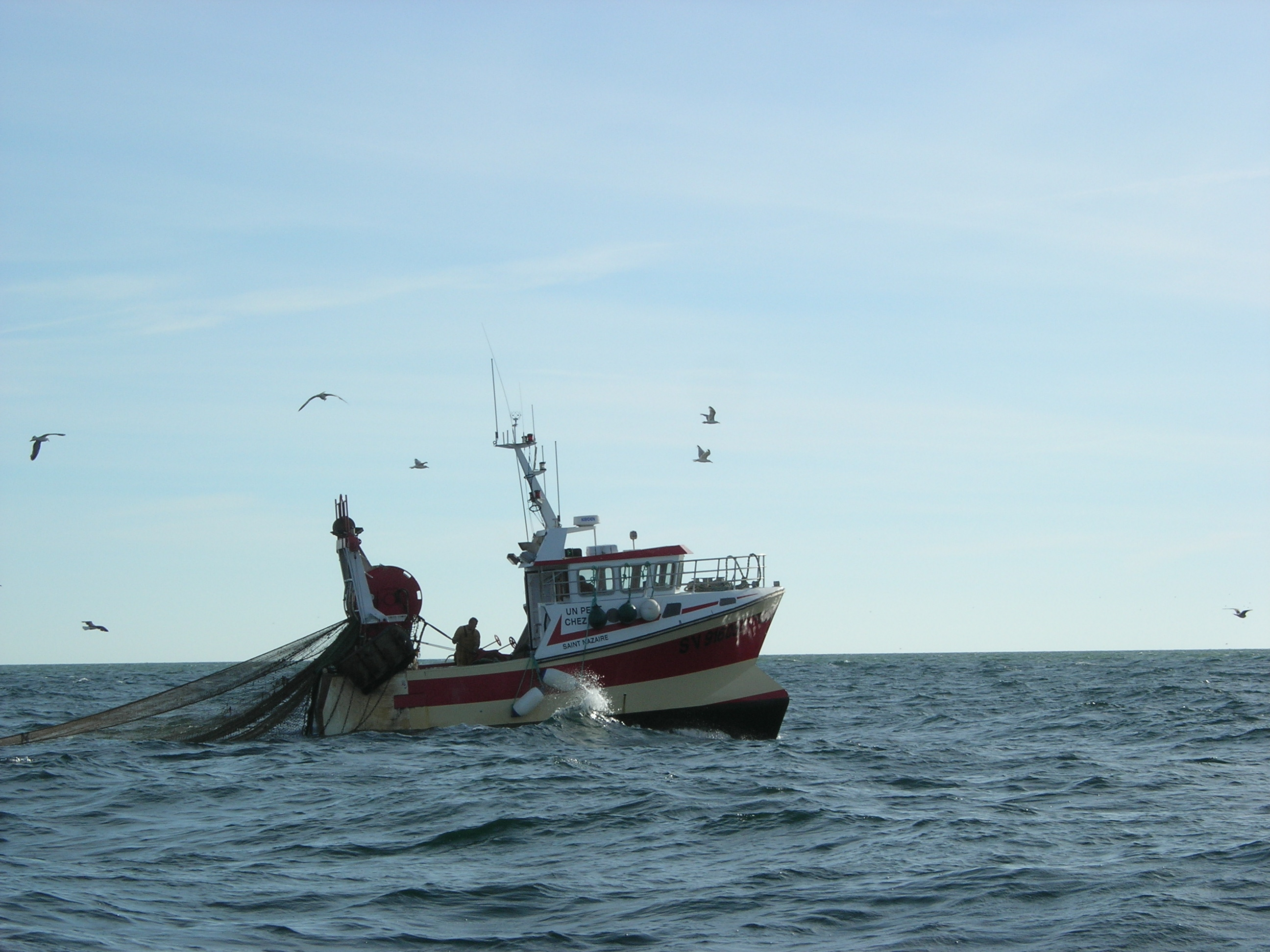 Description = Chalutier pendant la peche Source = Photo taken by Remi Jouan Date = Aout 2005 Author =Remi Jouan